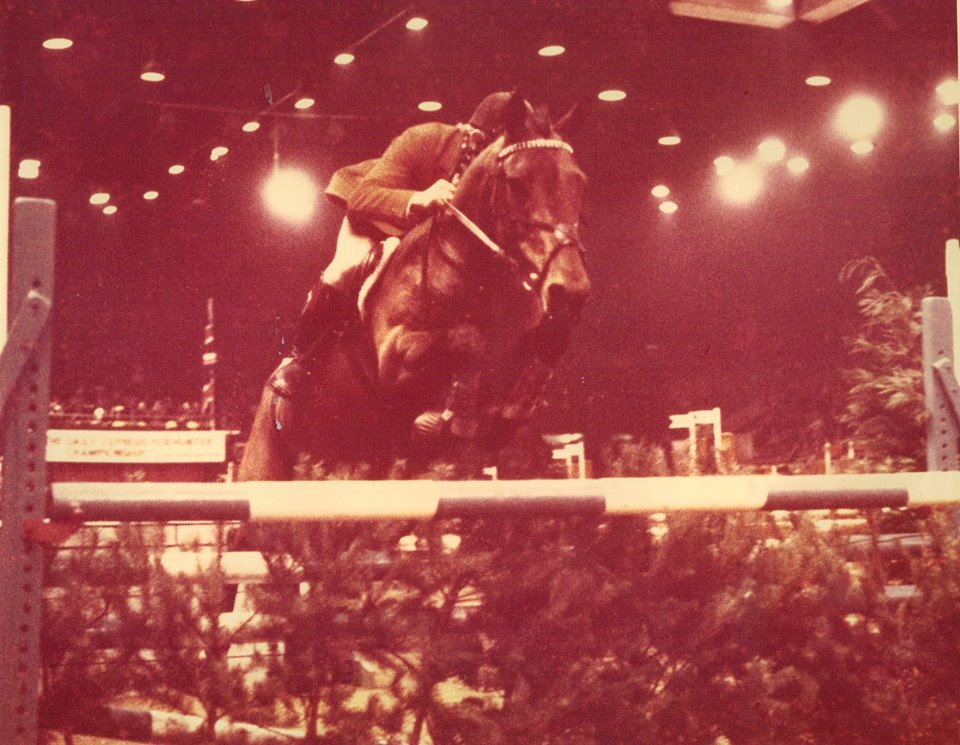 Willie Sheret MBE winning the 1975 Foxhunter Championship at the Horse of the Year Show at Wembley Arena in London.